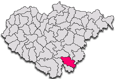 Map Salaj County Romania